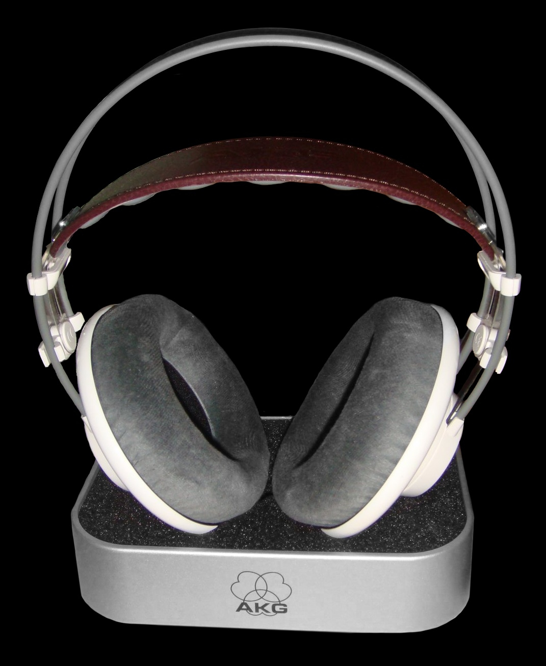 Headphones AGK K701.